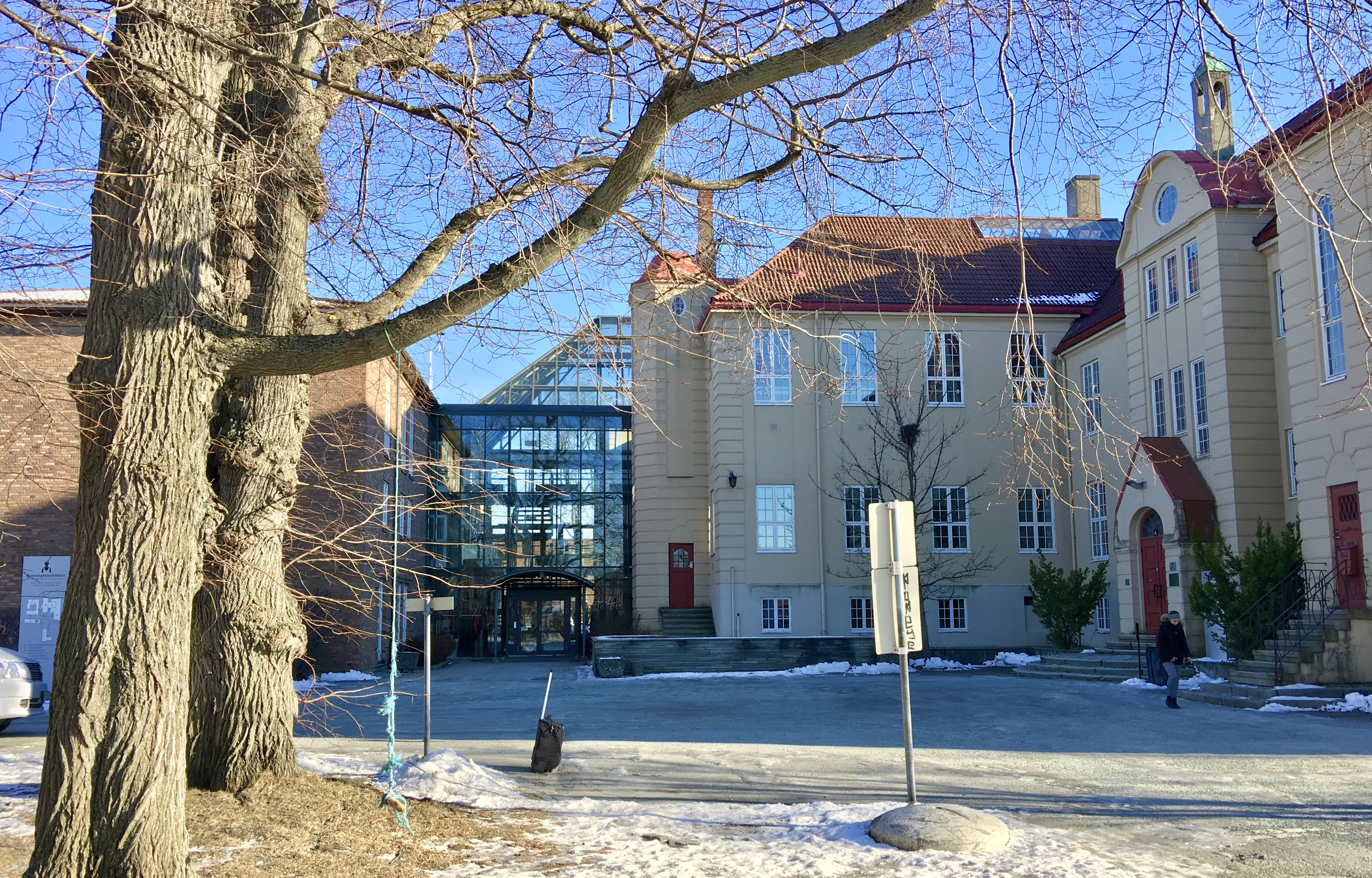 Facade of the old buildings of Queen Maud University College (Queen Maud University College of Early Childhood Education, Dronning Mauds Minne Høgskole for barnehagelærerutdanning, DMMH, former Dalen blindeskole) in Thrond Nergaards veg 7 in Trondheim, Norway. The school is located in a building from 1912 at Leangen, though the college itself dates back to 1947. Photo taken on March 8th, 2017.